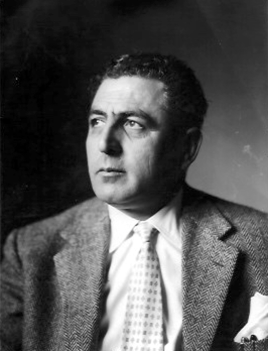 Portrait of the photographer Francesco Giordani